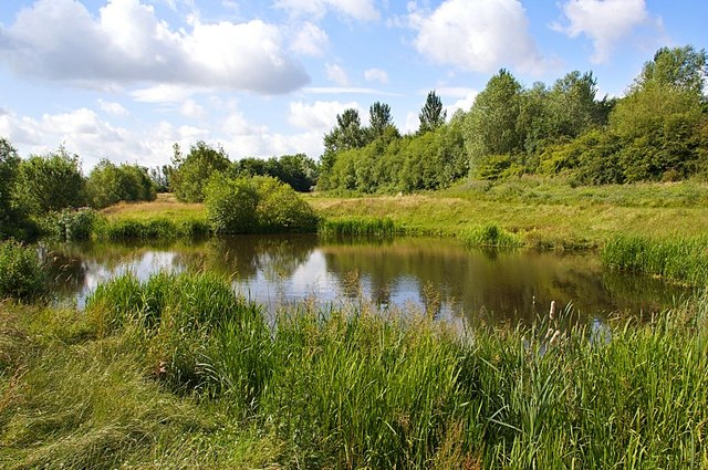 Ponds, Preston Park Ponds close to River Tees at the back of Preston Park